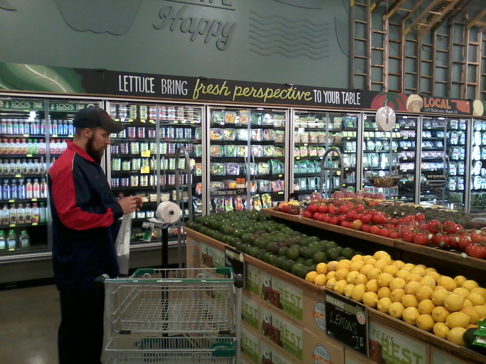 The produce department at the newest Whole Foods store in Tulsa, OK.